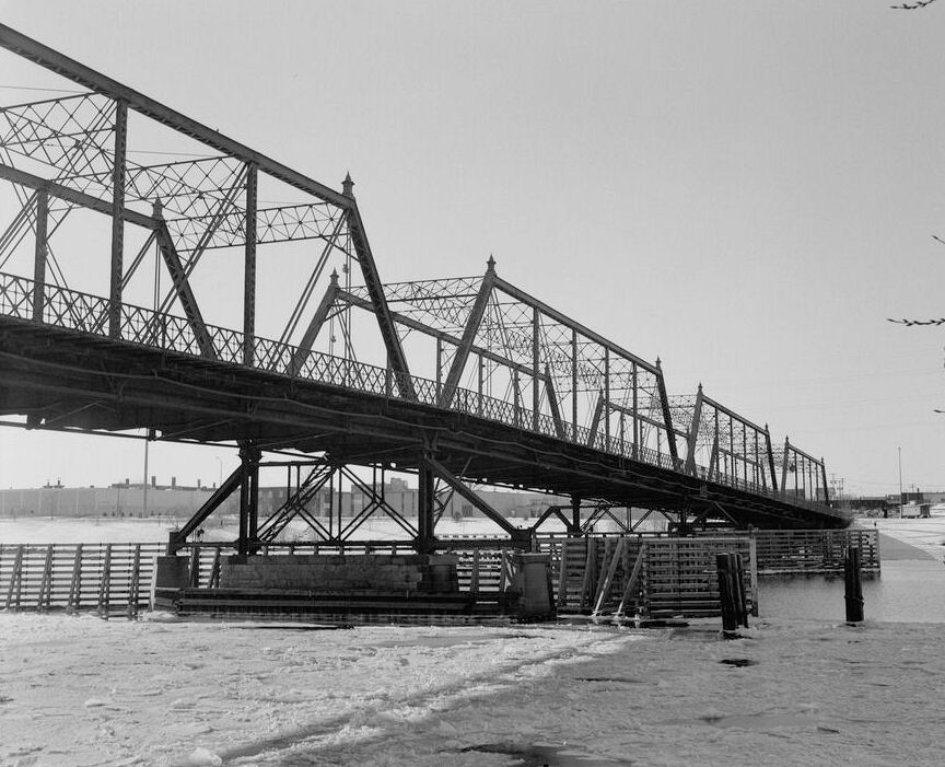 Old Broadway Avenue Bridge in Minneapolis, Minnesota